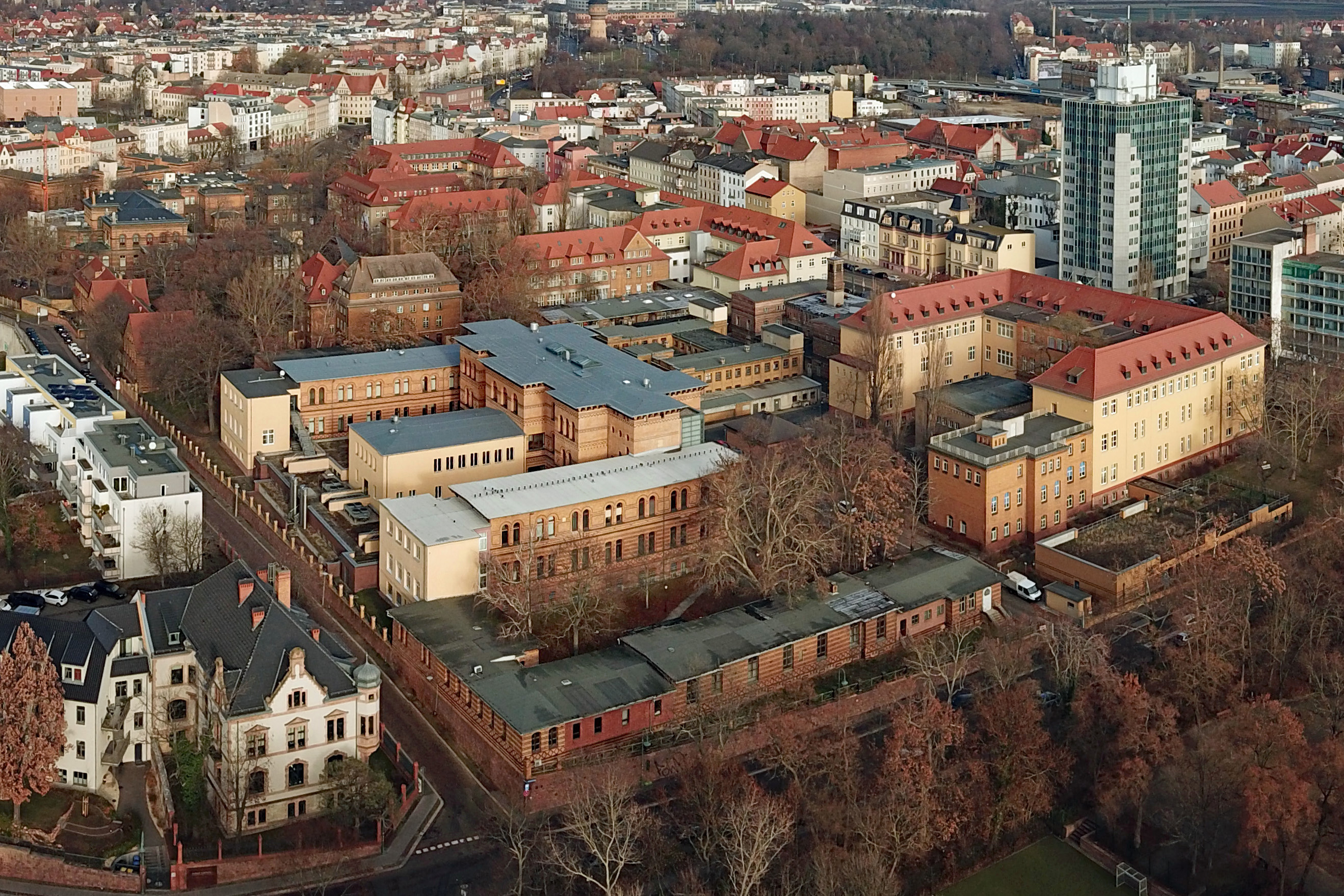 Universität Altklinikum Halle/Saale zwischen Magdeburger Straße und Franzosenweg (Saxony-Anhalt, Germany) Dieses Foto wurde mit einem Quadcopter in weniger als 1500 m Entfernung vom Heliport des Krankenhauses St Elisabeth aufgenommen. Der Flug erfolgte deshalb auf der Grundlage einer Einzelerlaubnis der Luftfahrtbehörde des Landes Sachsen-Anhalt. Absprachen gab es mit dem Betreiber des Heliports, mit der für den Stadtgottesacker zuständigen Friedhofsverwaltung sowie mit der Pressestelle und dem FB Sicherheit der Stadt Halle.